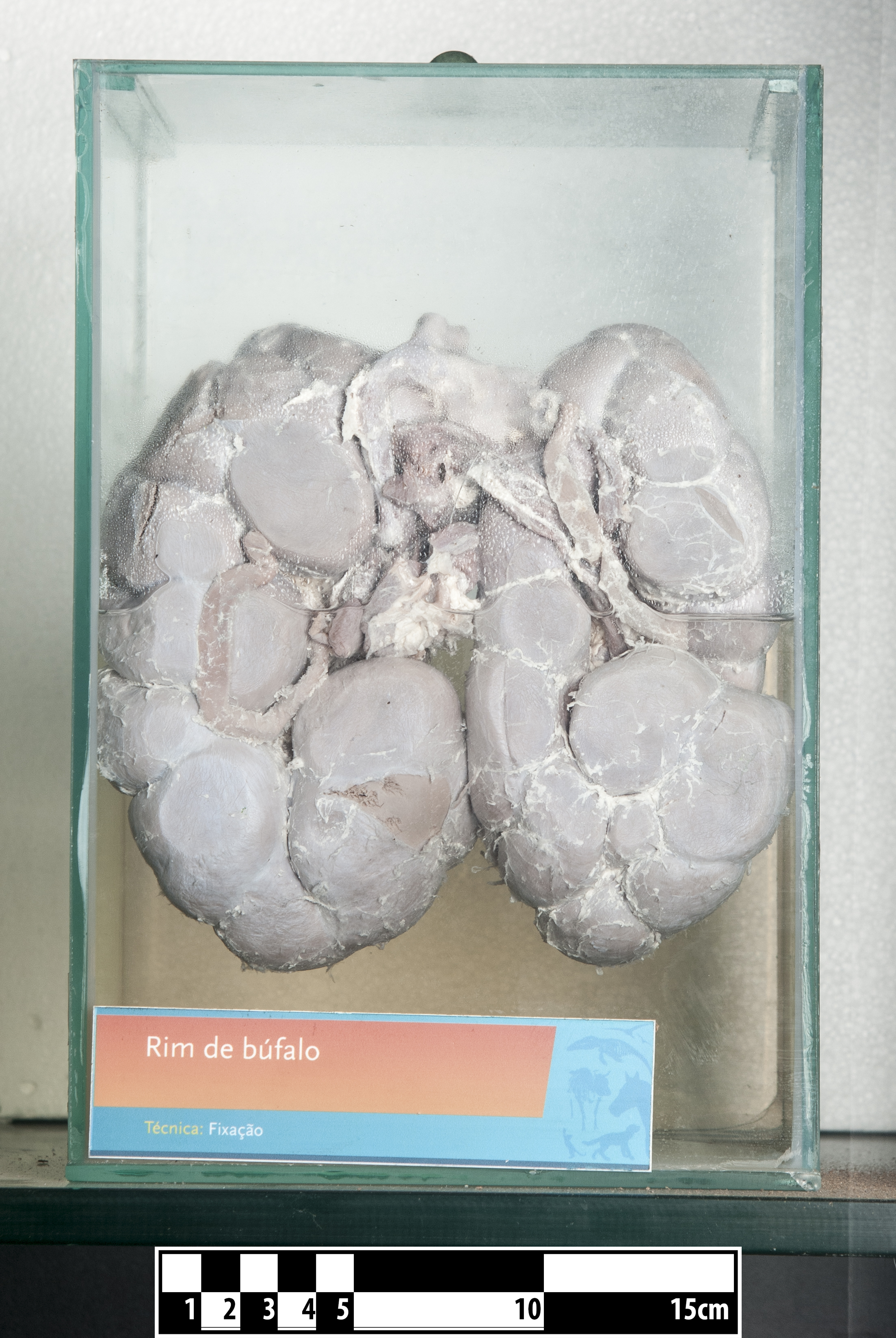 Bubalus bubalis (water buffalo) kidneys. Bubalus Technique of formalin fixation on display at the Museum of Veterinary Anatomy, FMVZ USP. This file was published as the result of a partnership between the Museum of Veterinary Anatomy FMVZ USP, the RIDC NeuroMat and the Wikimedia Community User Group Brasil. This GLAM project is reported.